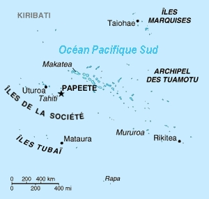 Map of French Polynesia.